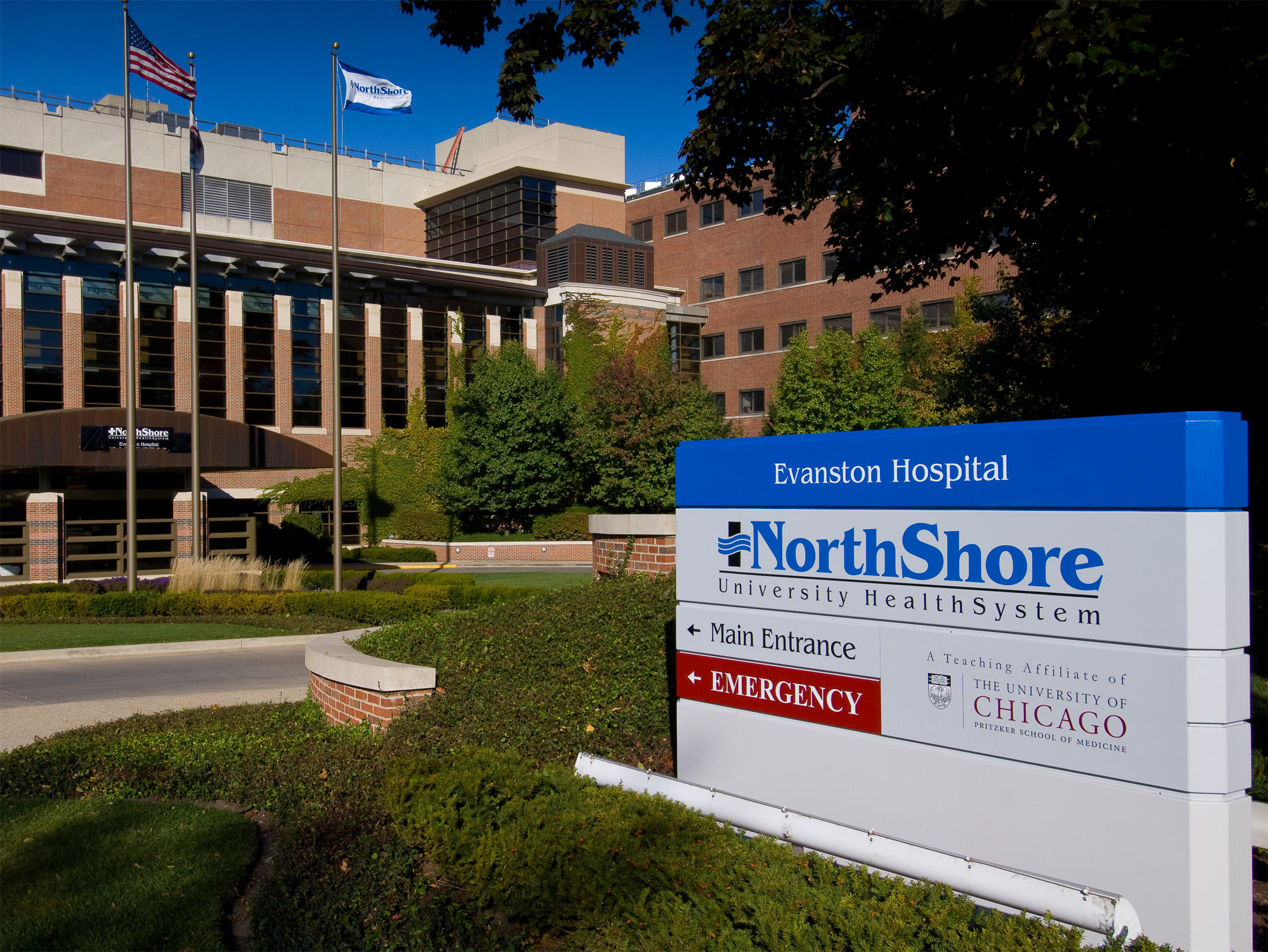 Front entrance of Evanston Hospital, NorthShore University HealthSystem, Evanston, Ill.